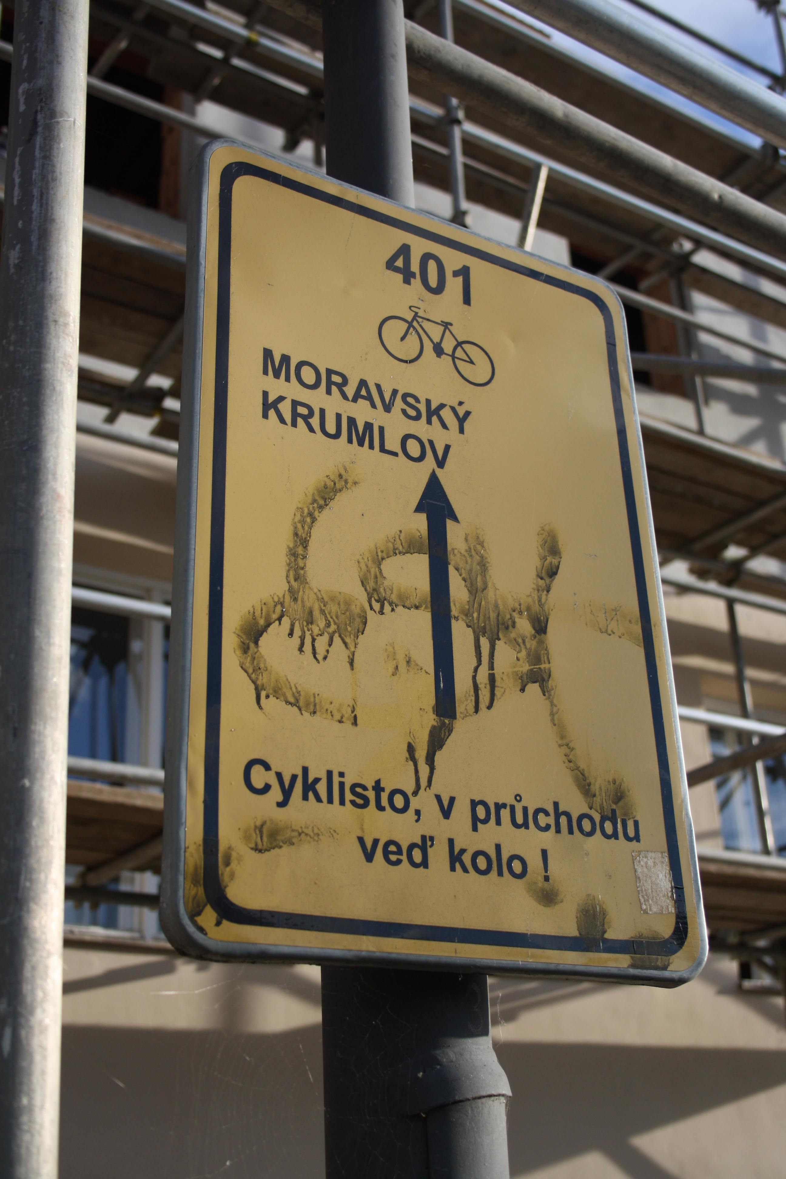 Sign of cycleway in Třebíč, Czech Republic.